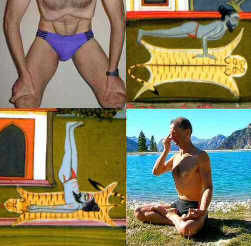 Four components of Hatha Yoga: Shatkarmas (purifications, here the start of Nauli with Uddiyana Bandha), Asanas (postures, here Mayurasana, Peacock Pose), Mudras (here, Viparita Karani), and Pranayama (breath control, here Kapalabhati).